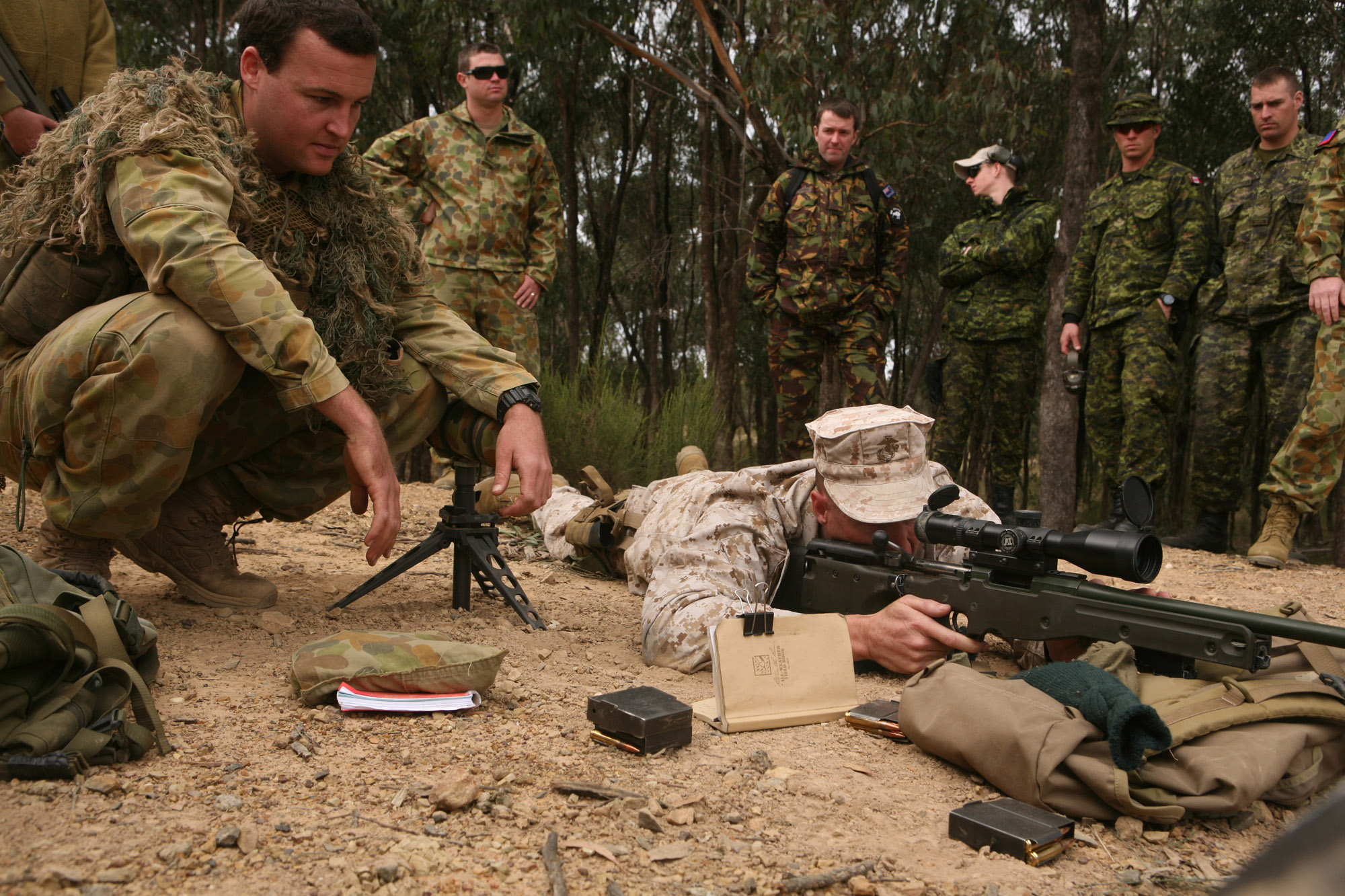 Lt. Col. Mark D. Mackey (right), officer in-charge, Marine Shooting Detachment Australia, inspects an Australian SR-98 sniper rifle as Australian Army Cpl. Garth Cook (right), sniper, 8th Battalion, 9th Royal Australian Regiment, answers questions here May 7 during the 2011 Australian Army Skill at Arms Meeting.